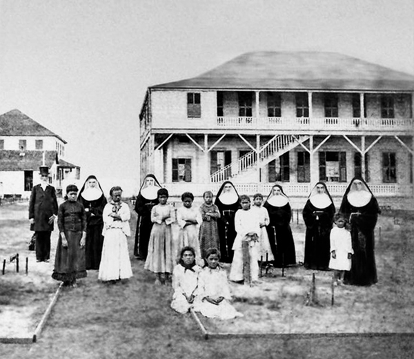 Walter Murray Gibson (left) with Mother Marianne Cope and other sisters at Kapiolani Home in Kakaako for daughters of Hansen’s disease patients.